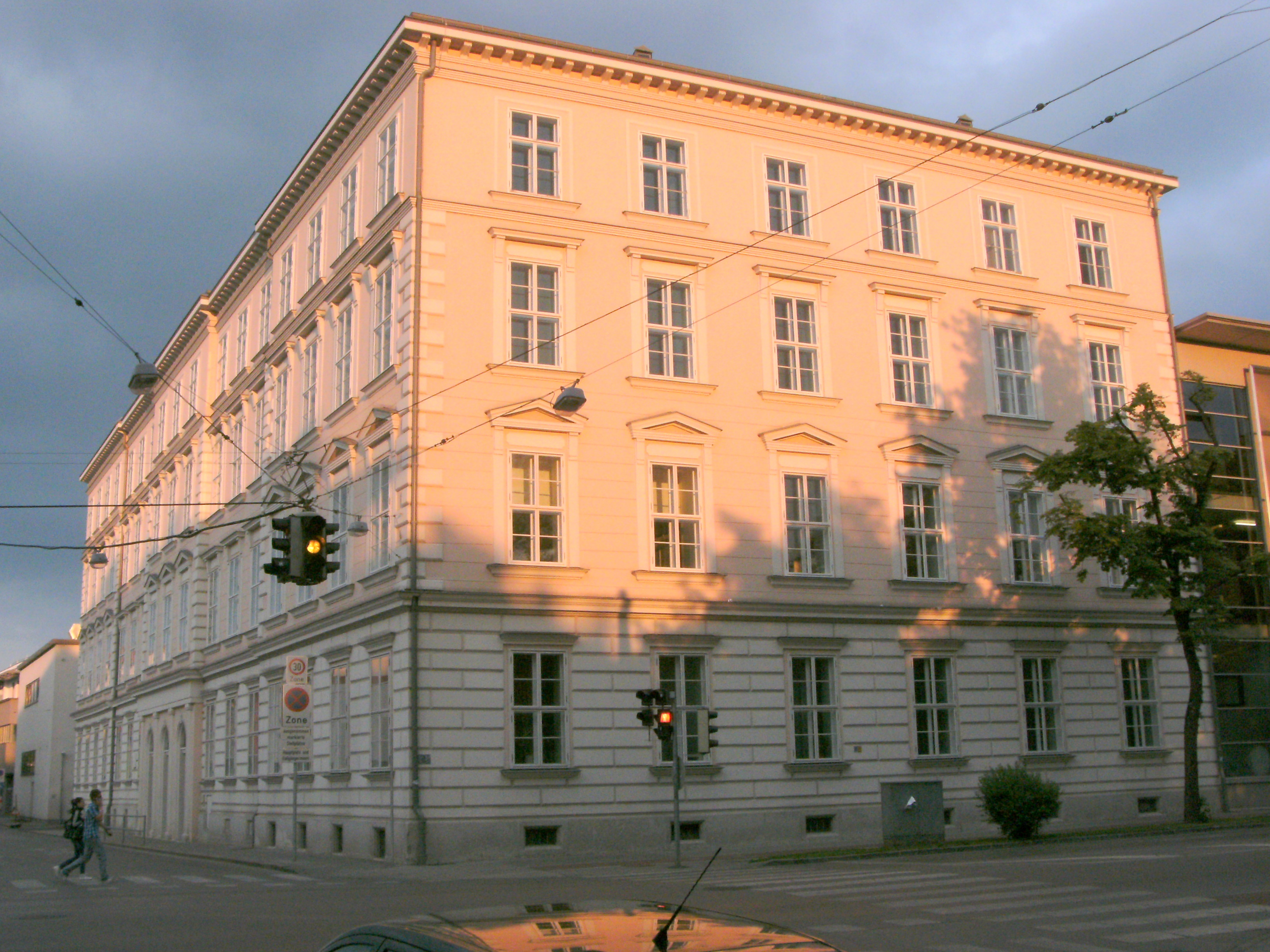 Historical building of Bundes-Oberstufenrealgymnasium (Federal senior grammar school) in Wiener Neustadt, Lower Austria